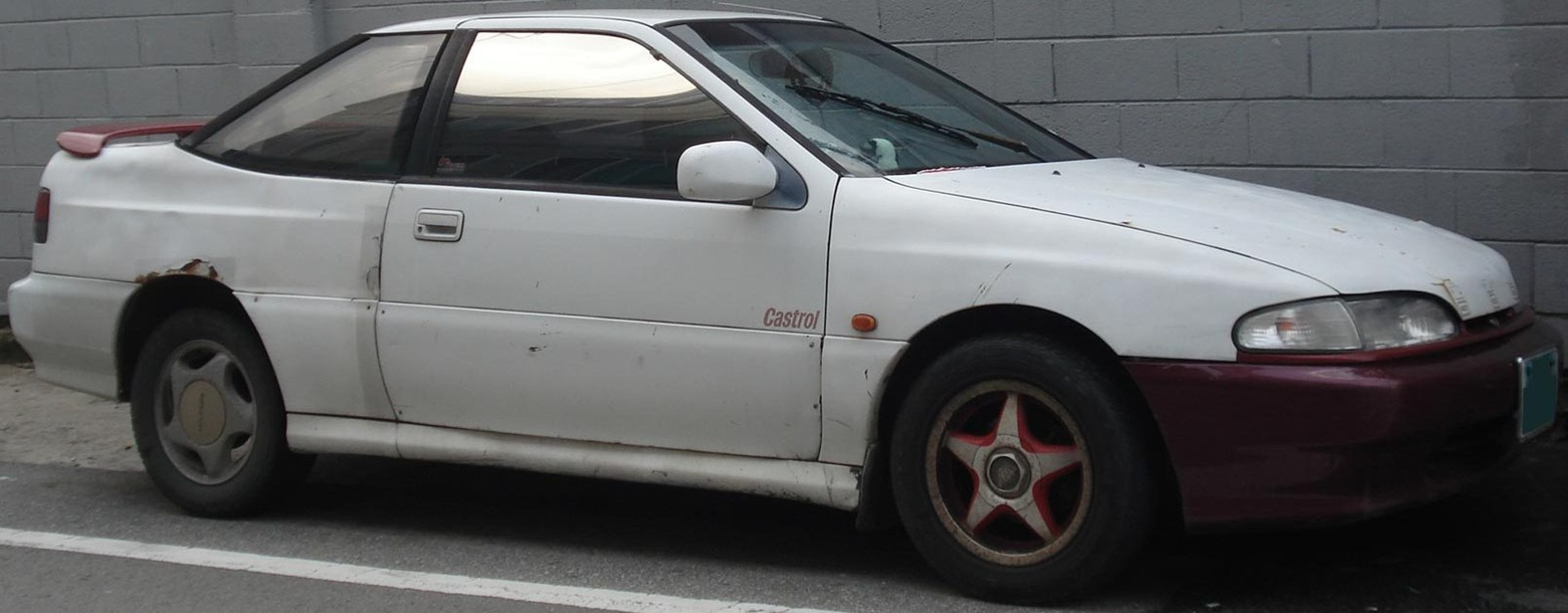 Hyundai New Scoupe